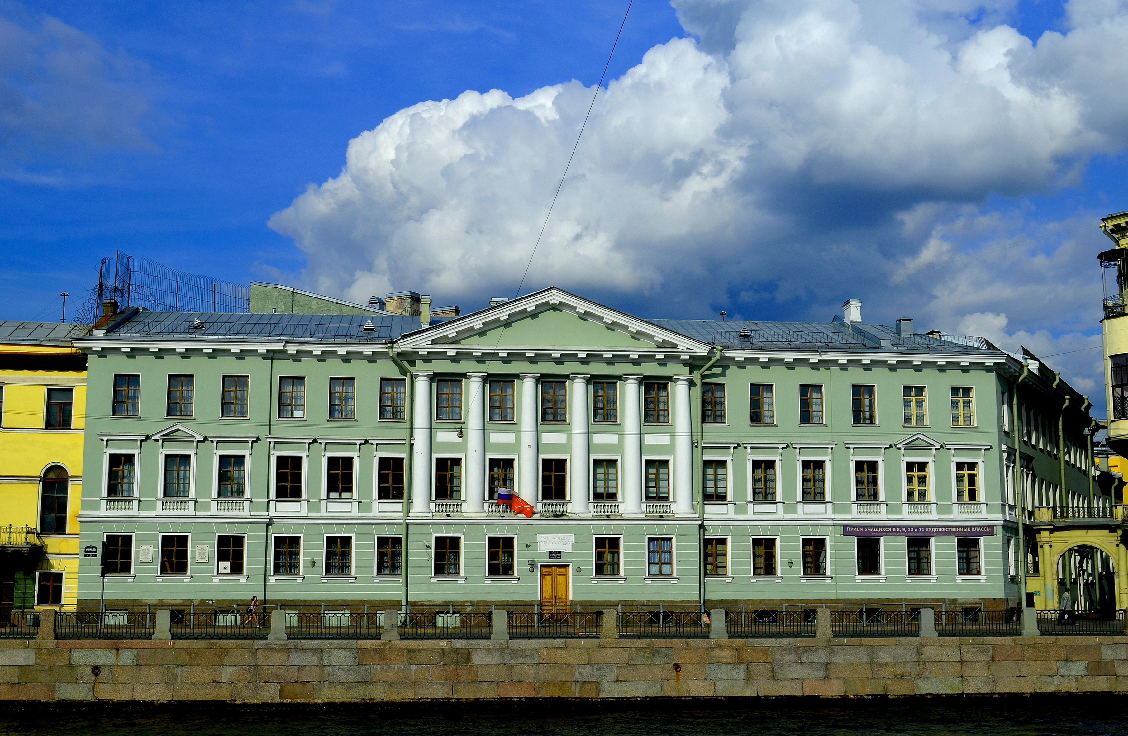 House of the merchant V.F. Gromov (architect G.I. Vintergalter), Fontanka Embankment, 22. Tsentralny District, St. Petersburg.